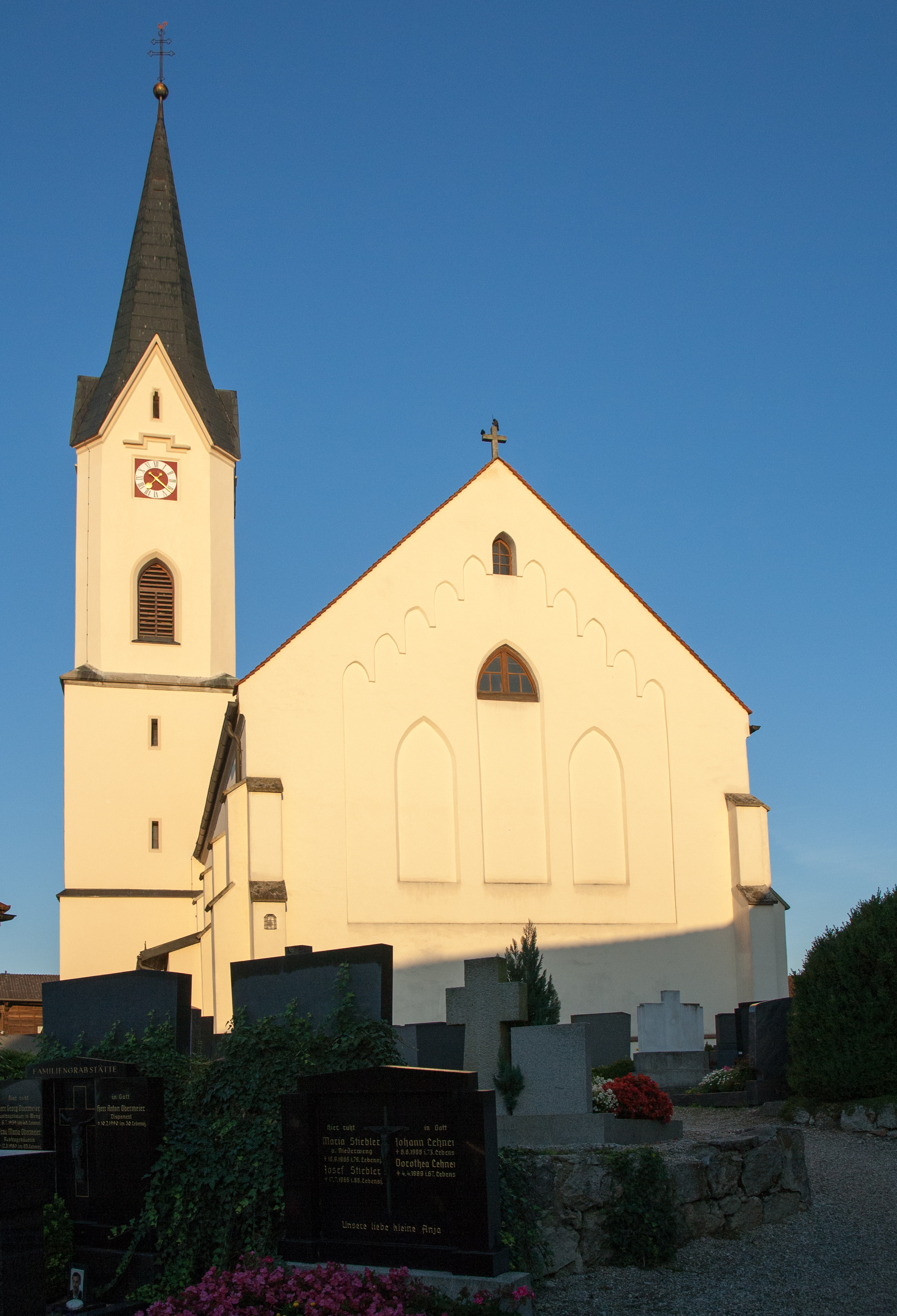 This is a photograph of an architectural monument.